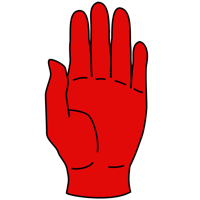 Red Hand of Ulster, sinister (left) hand version as used by baronets. The dexter (right) hand version is used today in Ulster (Northern Ireland) by Protestants as a political symbol.